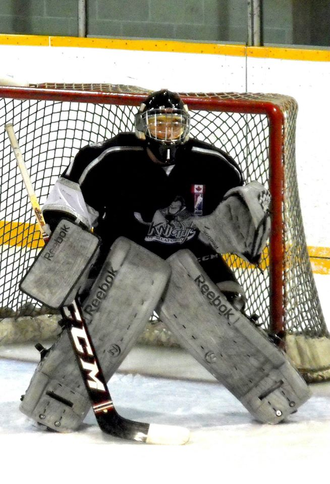 This photo was taken by Devan Mighton during the 2014-15 GMHL season.